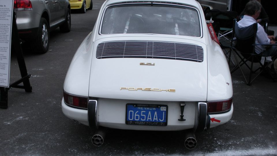 This photo was taken July 3, 2011 at Pacific Northwest Historics Vintage Car Race, which benefits Seattle Children's Hospital. The placard displayed next to this vehicle stated that it was a factory demonstrator used by Edgar Barth, who later acquired it and used it for racing, thus becoming one of the few 901s to fall into private hands.